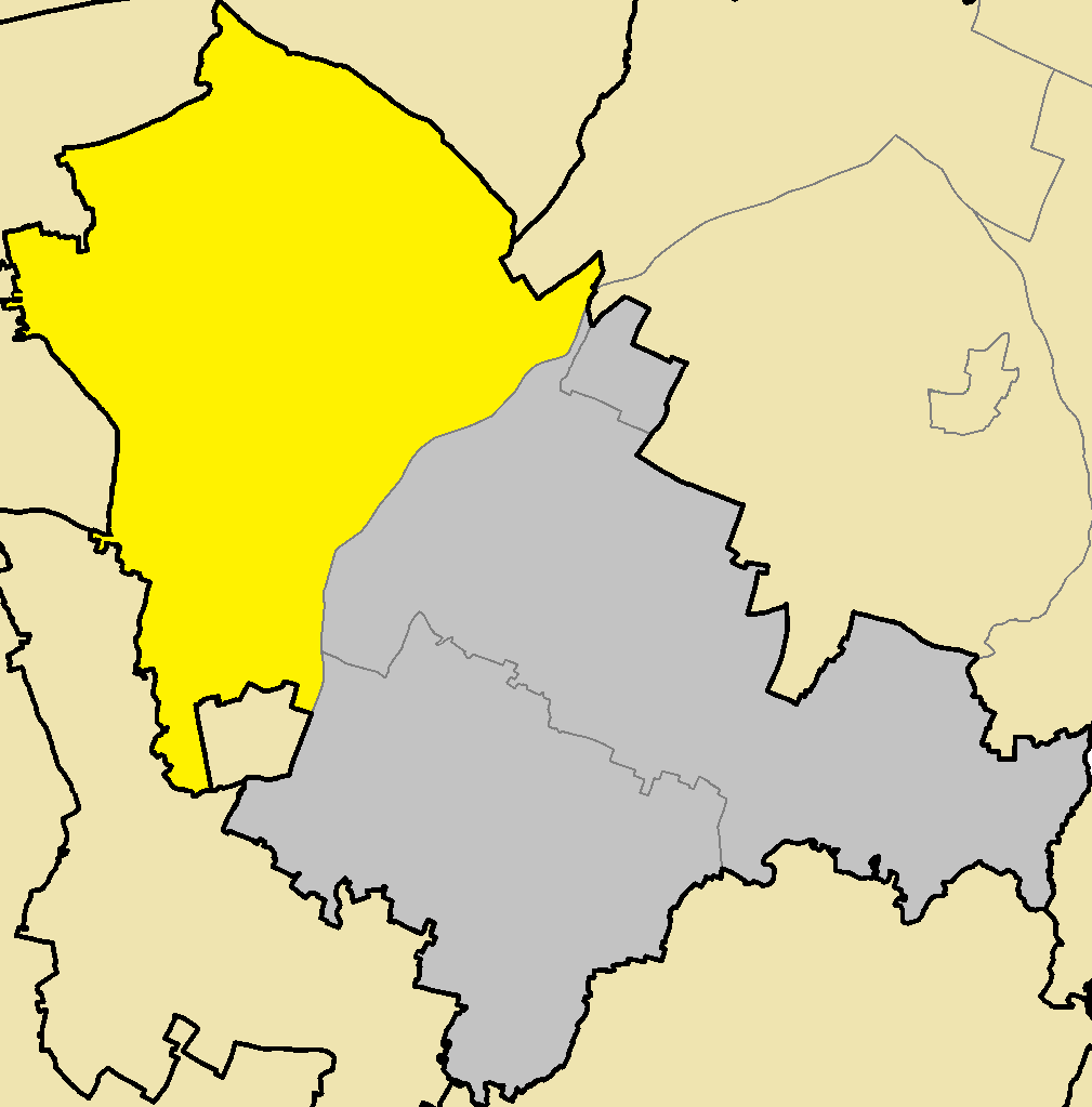 Archangelos - Anthoupoli in Lakatamia.